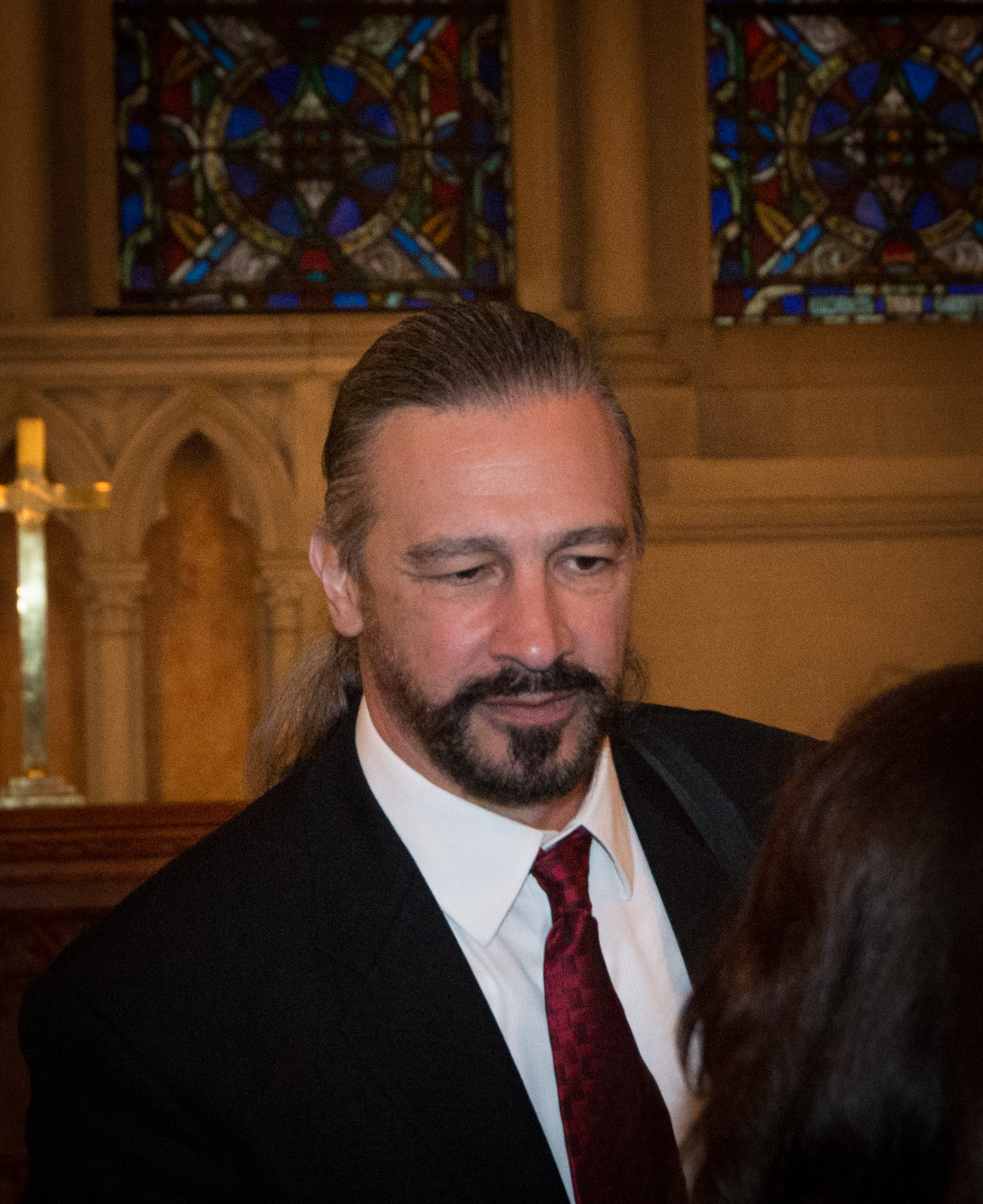 Boston Wagner Society concert on 11 May 2013 at Old South Church. Photo taken by Paul Geffen for Boston Wagner Society.